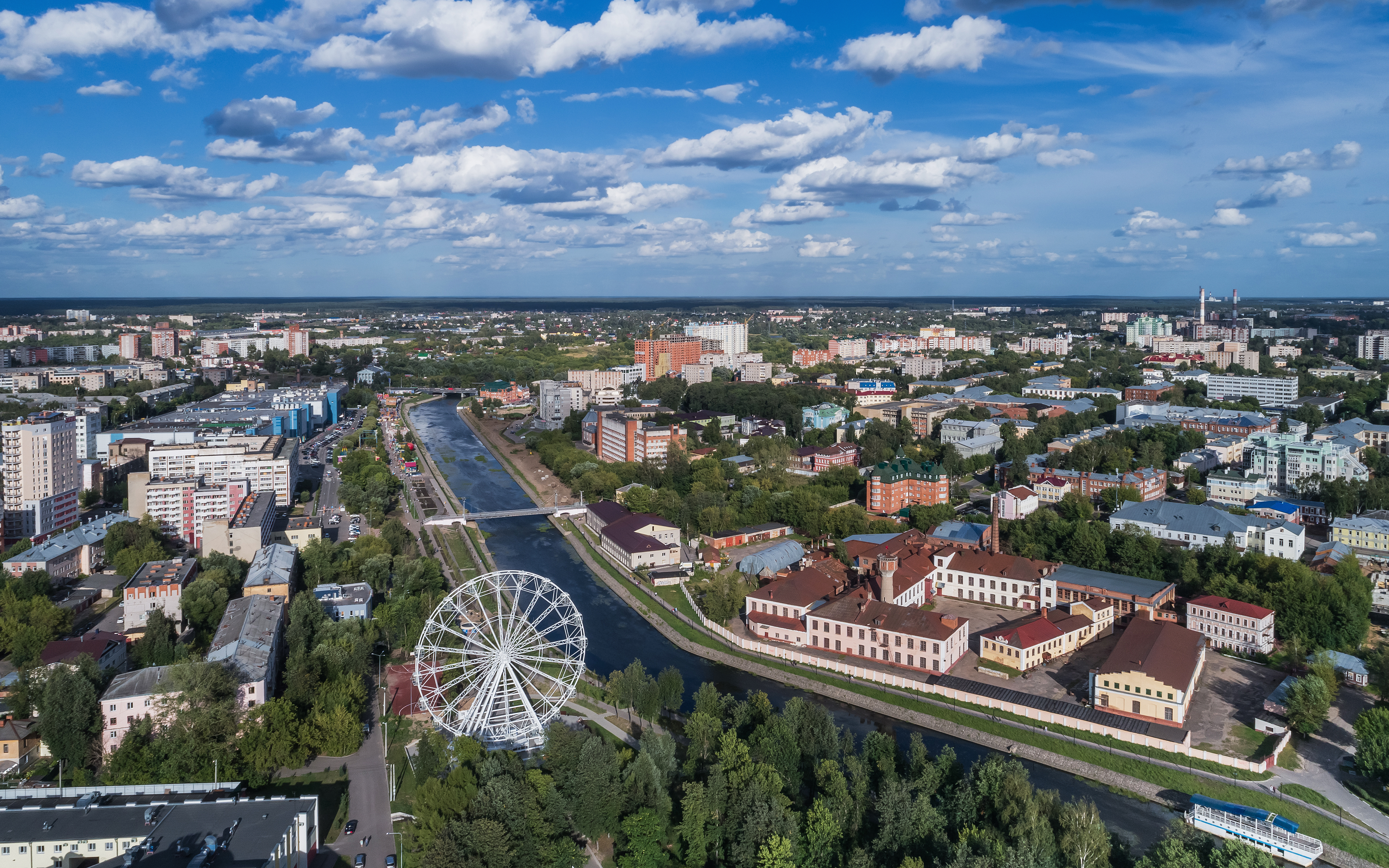 Aerial photo of Ivanovo, Russia